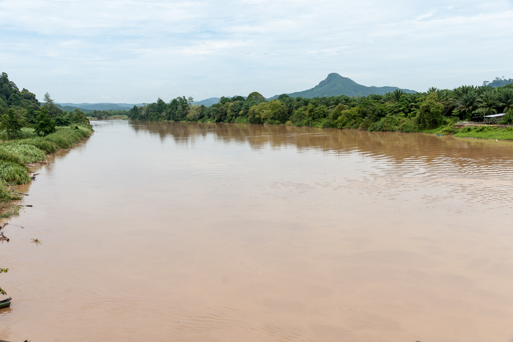 Sungai Kinabatangan at the bridge near Batu Tulug